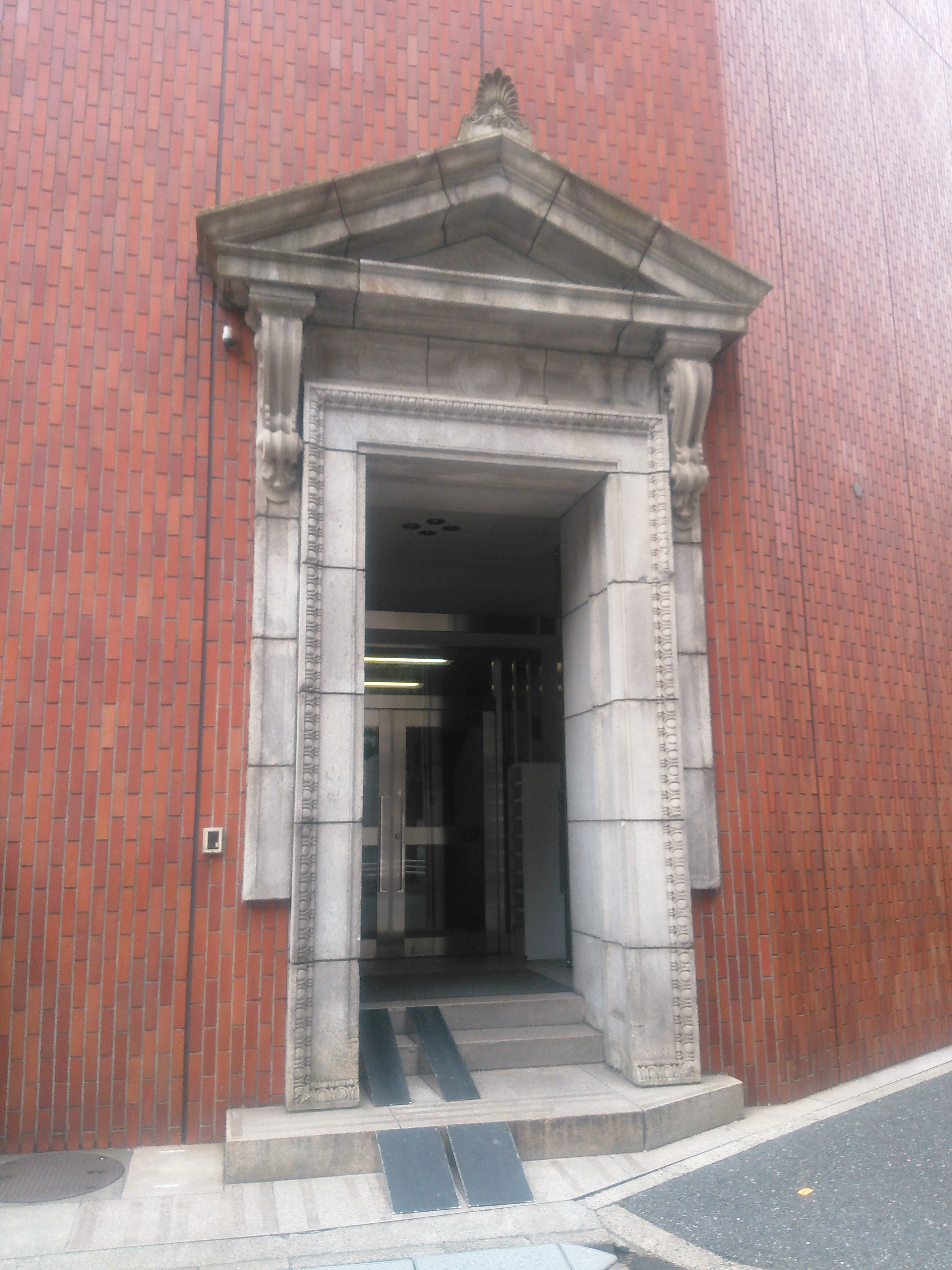 Door of former Murai Bank headquarters remaining at the Nihonbashi Miyuki Building